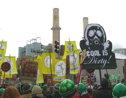 Capitol Climate Action protests the coal fired Capitol Power Plant in Washington, DC